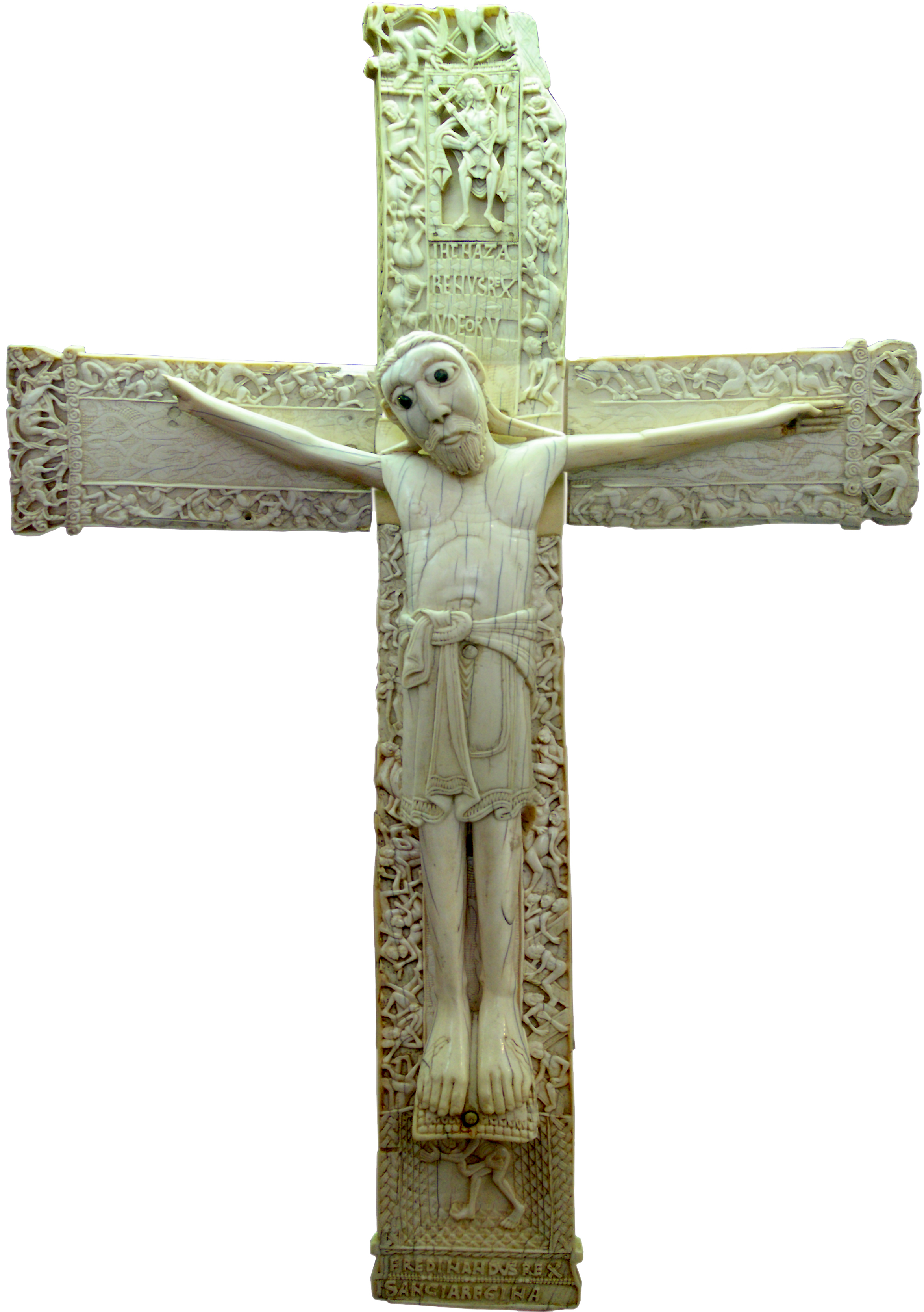 Obverse of the so-called Crucifijo de don Fernando y doña Sancha. Ivory Romanesque crucifix with a Christ, donated by king Ferdinand I of Leon and his wife, queen Sancha, to the monastery of San Isidoro de Leon.